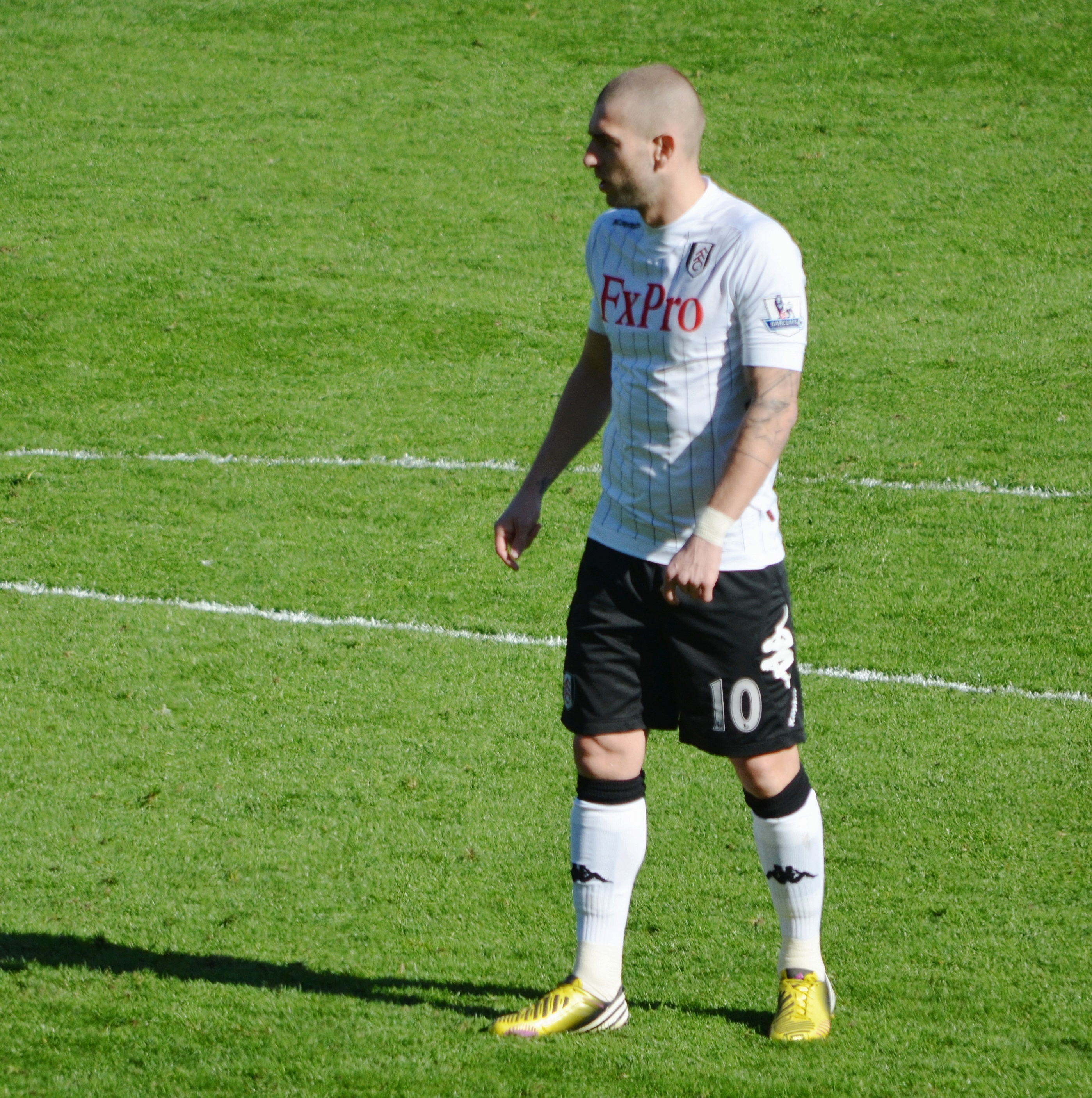 Mladen Petric of Fulham, April 2013